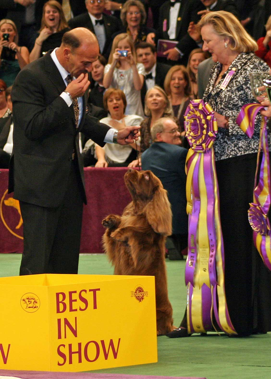 End of the night at Westminster when Stump the Sussex Spaniel won Best in Show. 2/2009